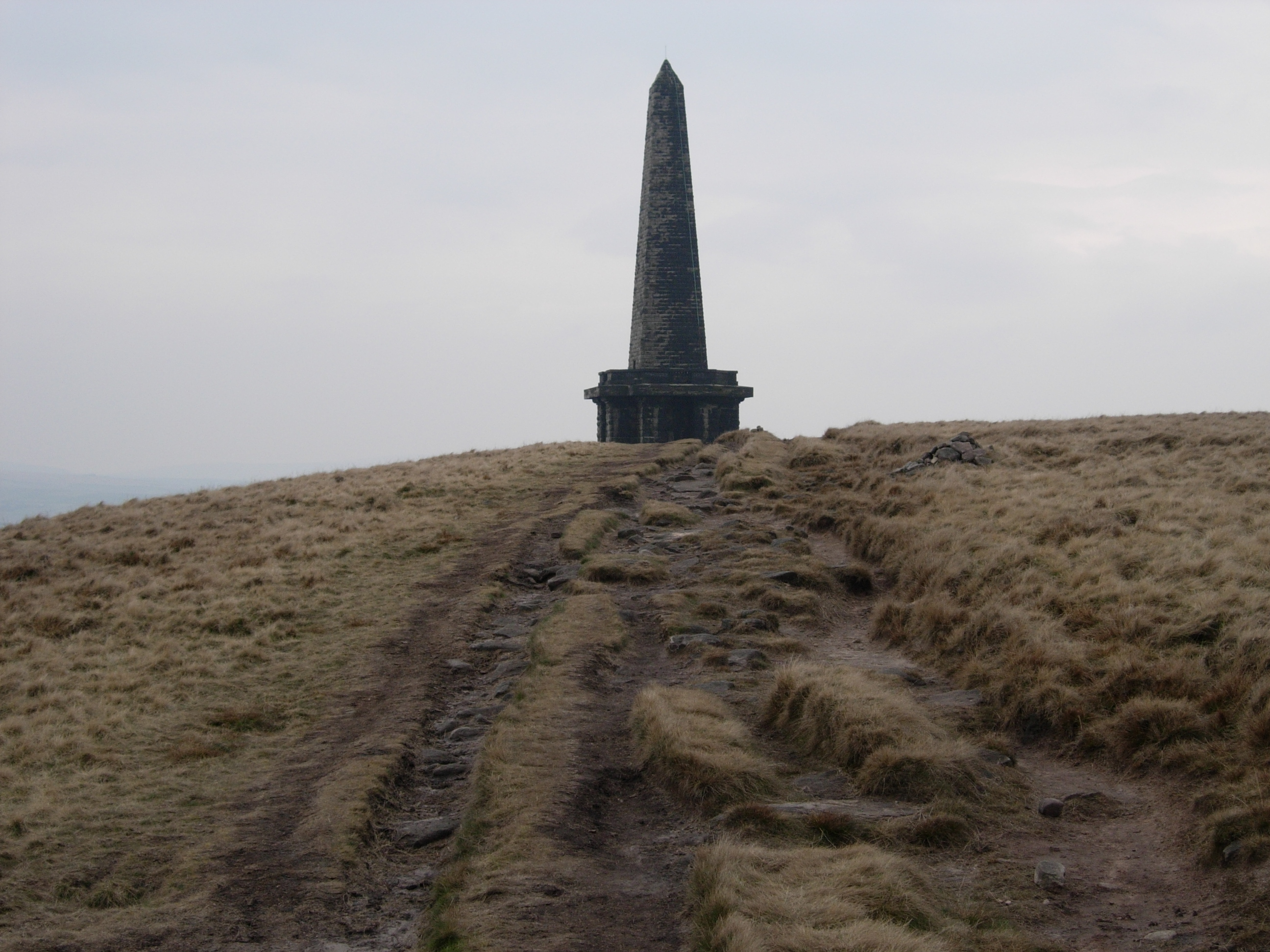 Stoodley Pike monument (photo taken 15th April 2005). --Richard Clegg 23:49, 19 April 2006 (UTC)